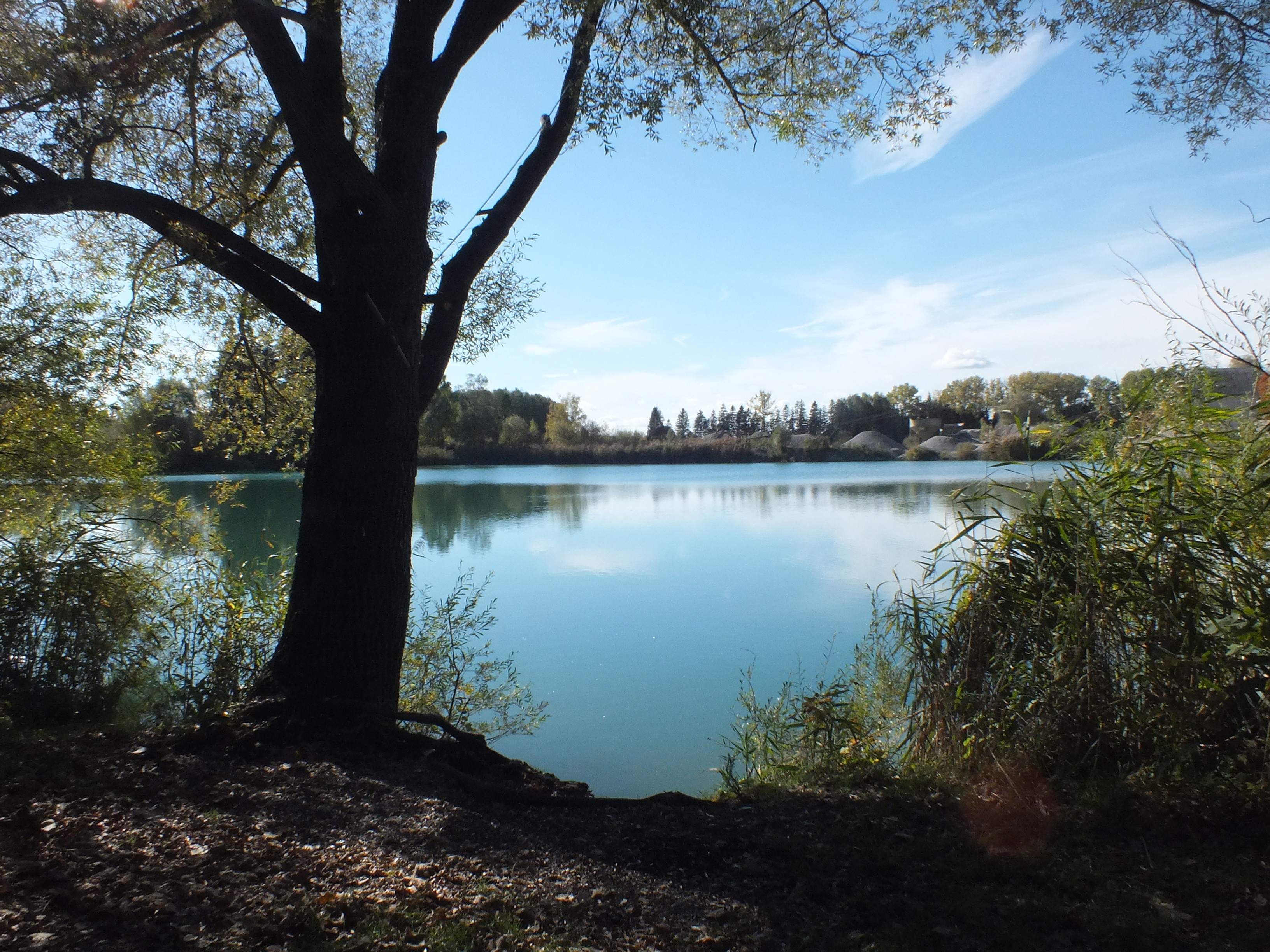 unnamed quarry pond of Karlsfeld Deitsch: namenloser Baggersee in Karlsfeld